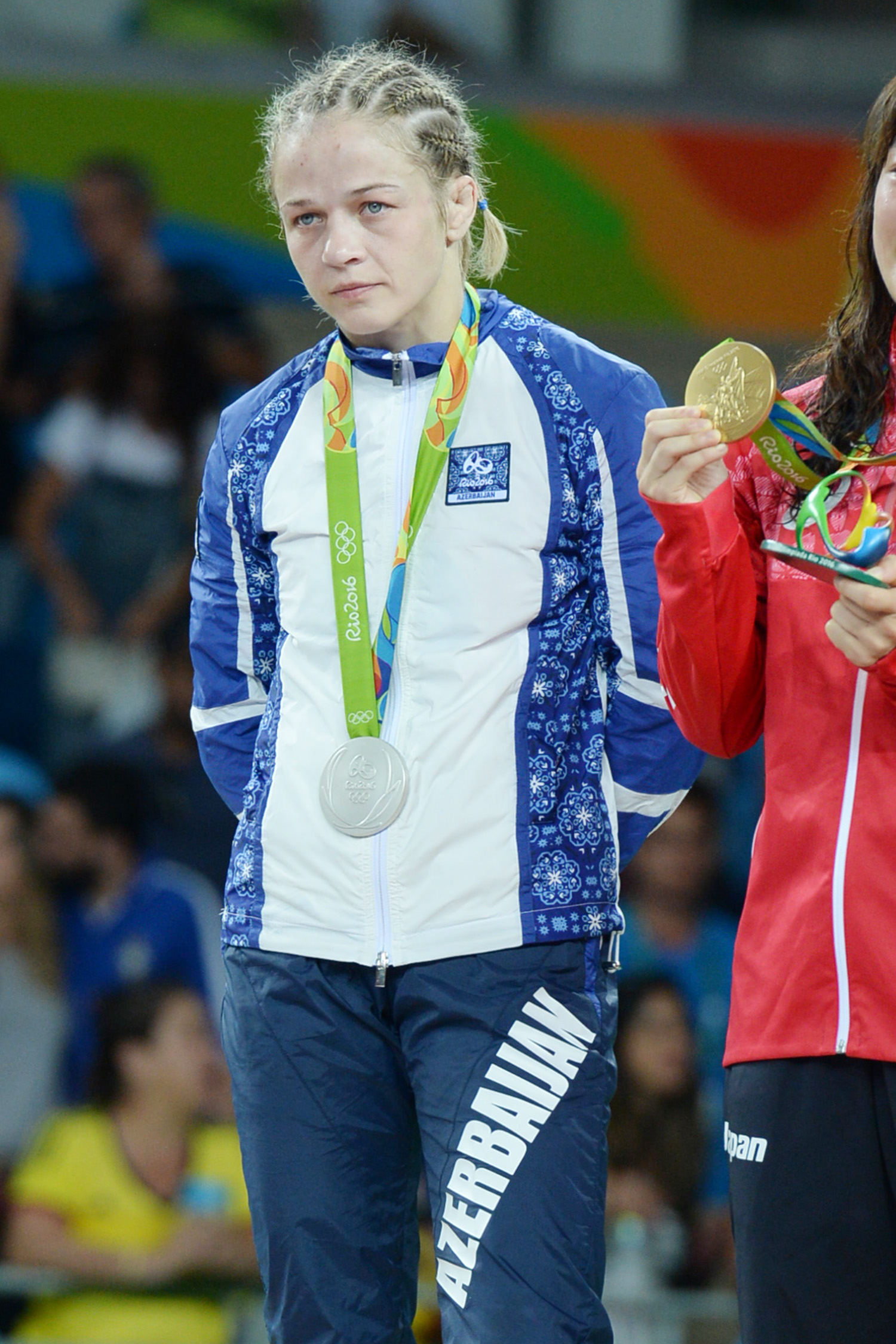 Mariya Stadnik at the 2016 Summer Olympics, Women's Freestyle Wrestling 48 kg awarding ceremony